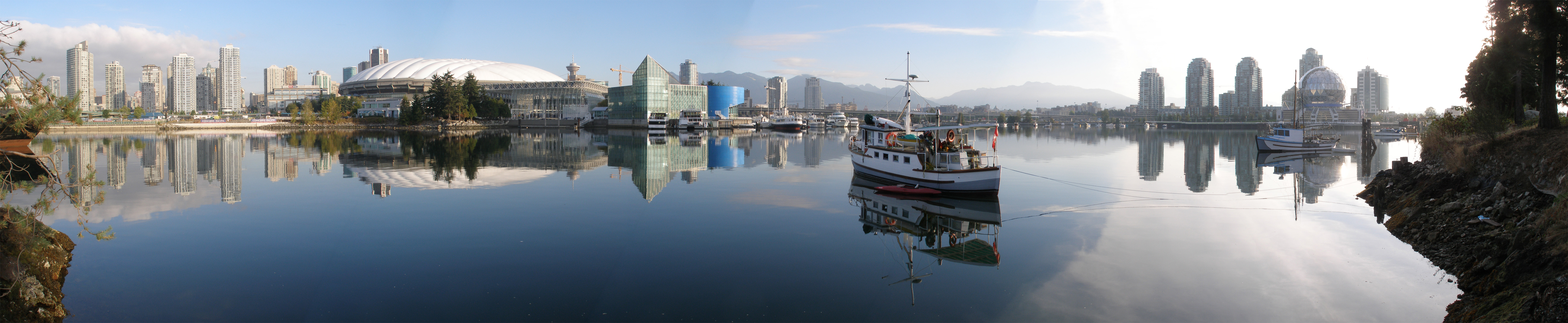 B.C. Place from False Creek Original caption: I live in such a wonderful city.